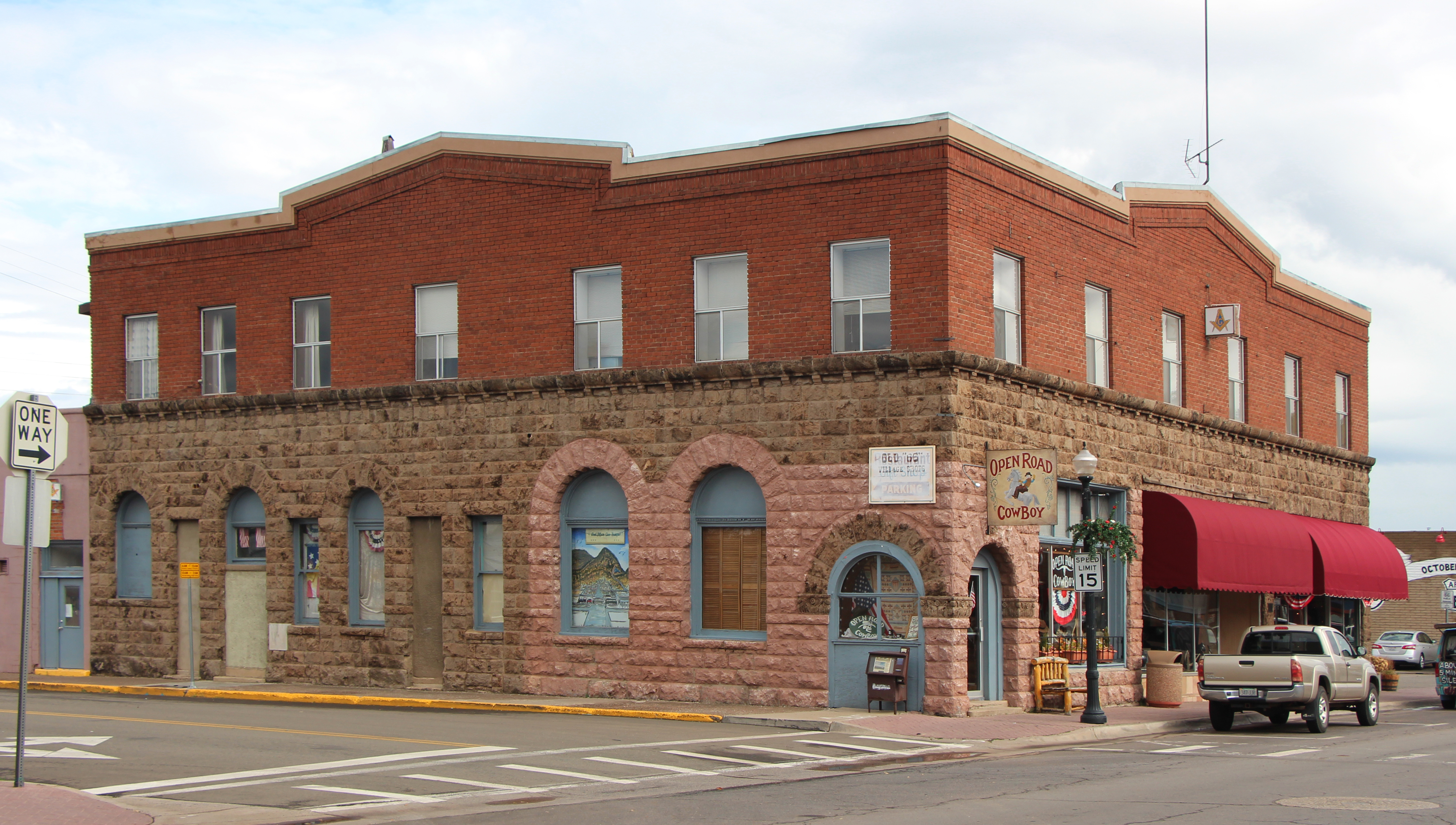 Pollock Building, 104 N. 3rd Street, Williams, AZ